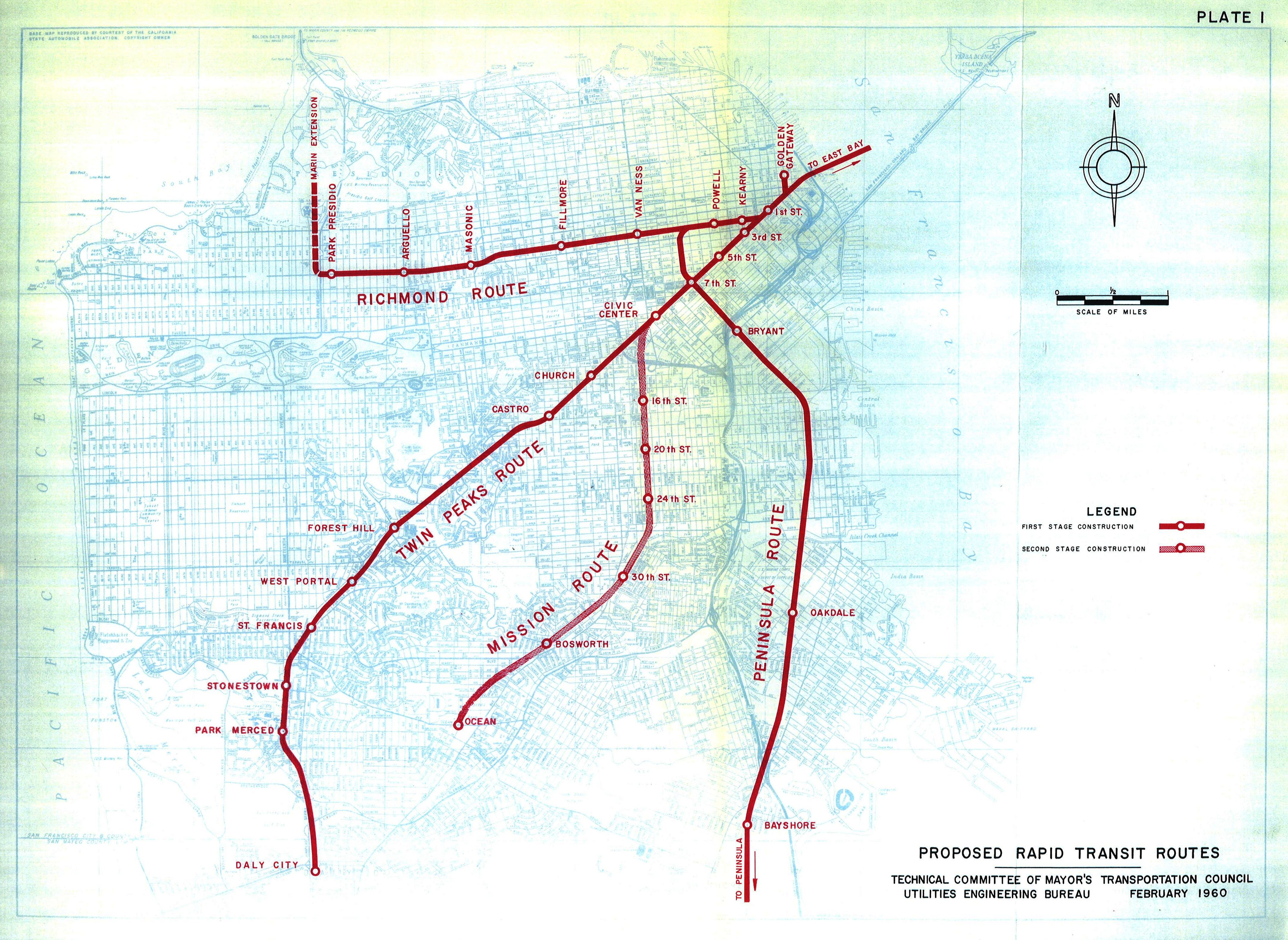 View in Google Earth: large or original size